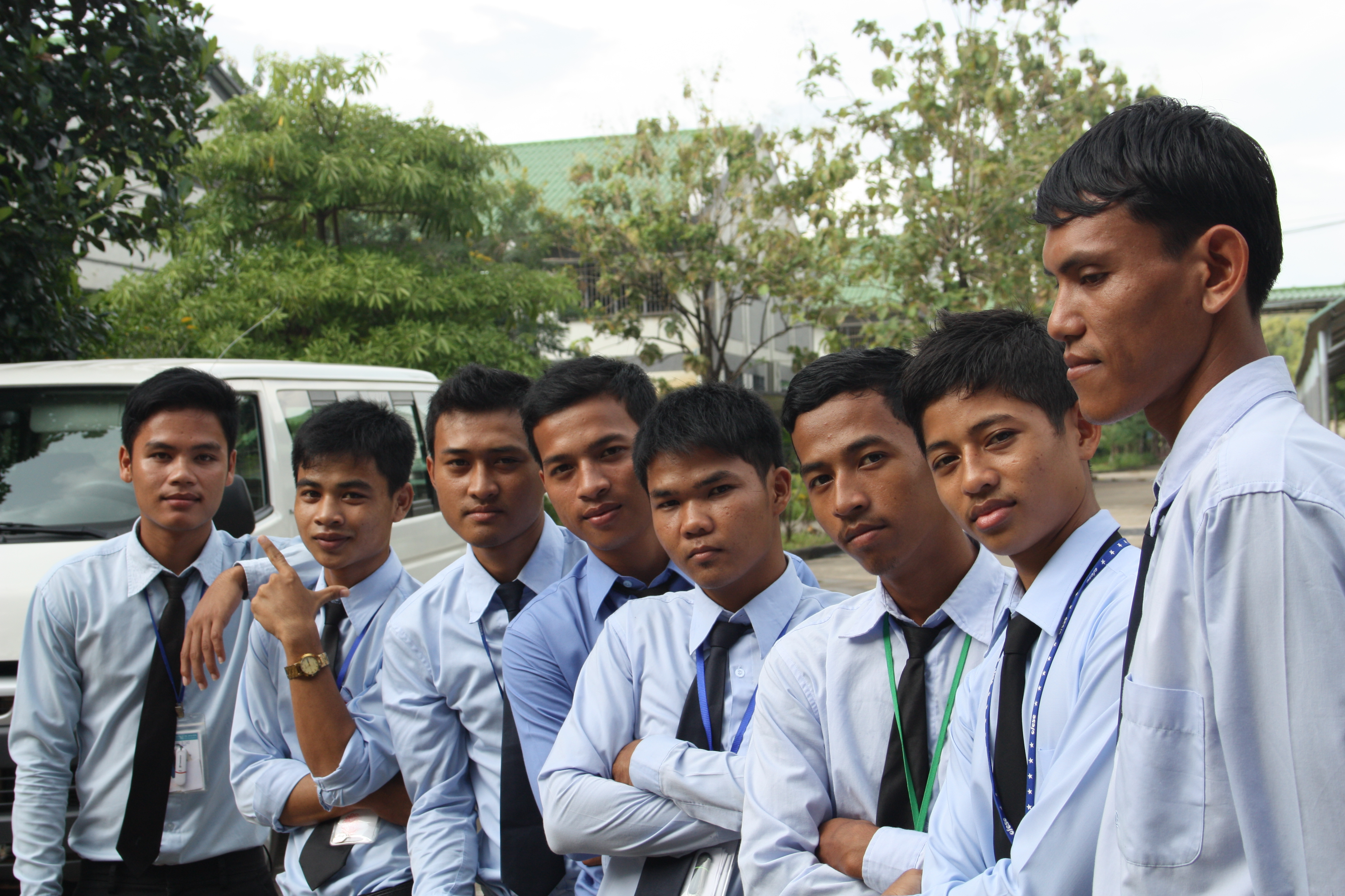 Group of webmaster of Social communication section of Don Bosco Sihanoukville , Cambodia.